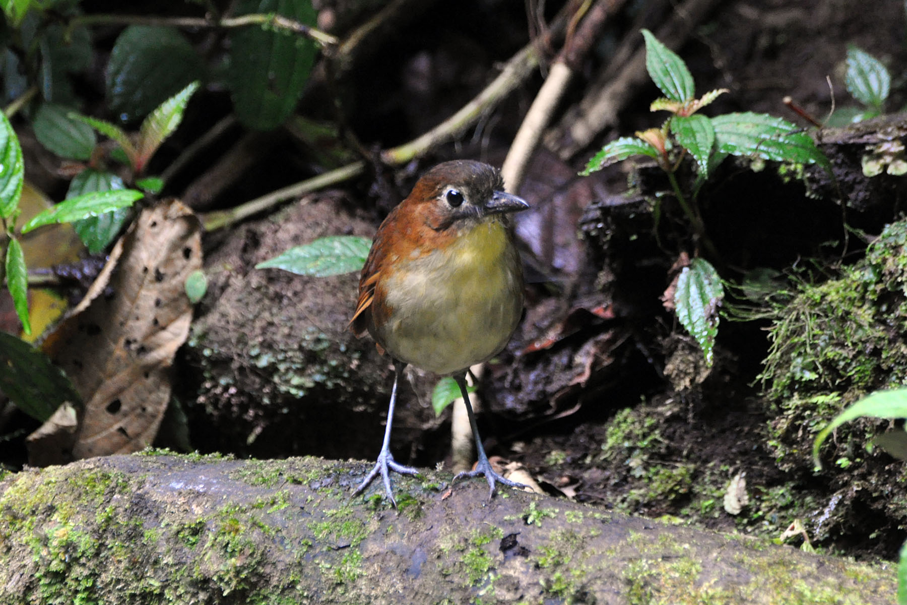 A Yellow-breasted Antpitta in Ecuador.